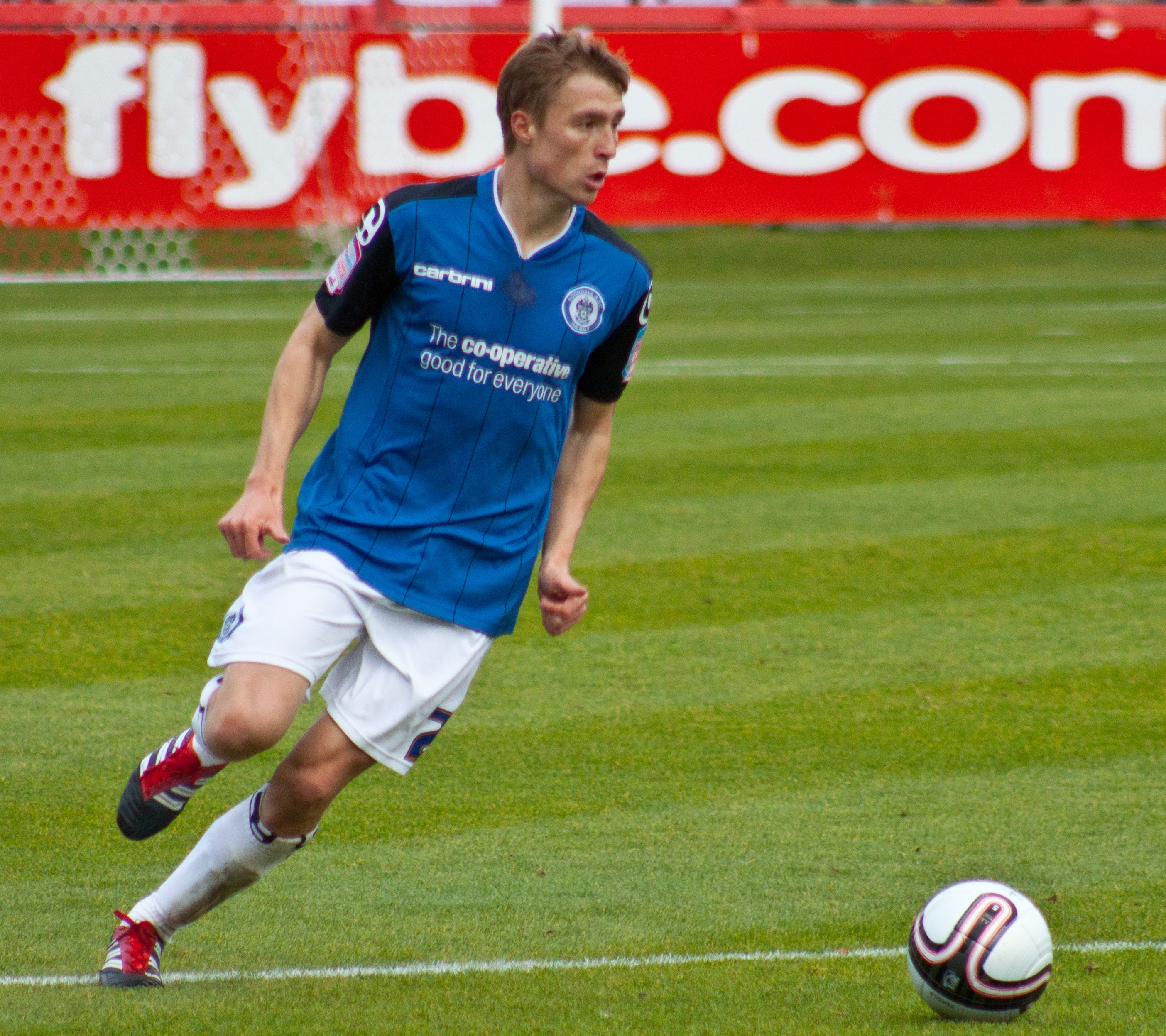 Exeter City v Rochdale, October 2011 Stephen Darby, on a season long loan from Liverpool.